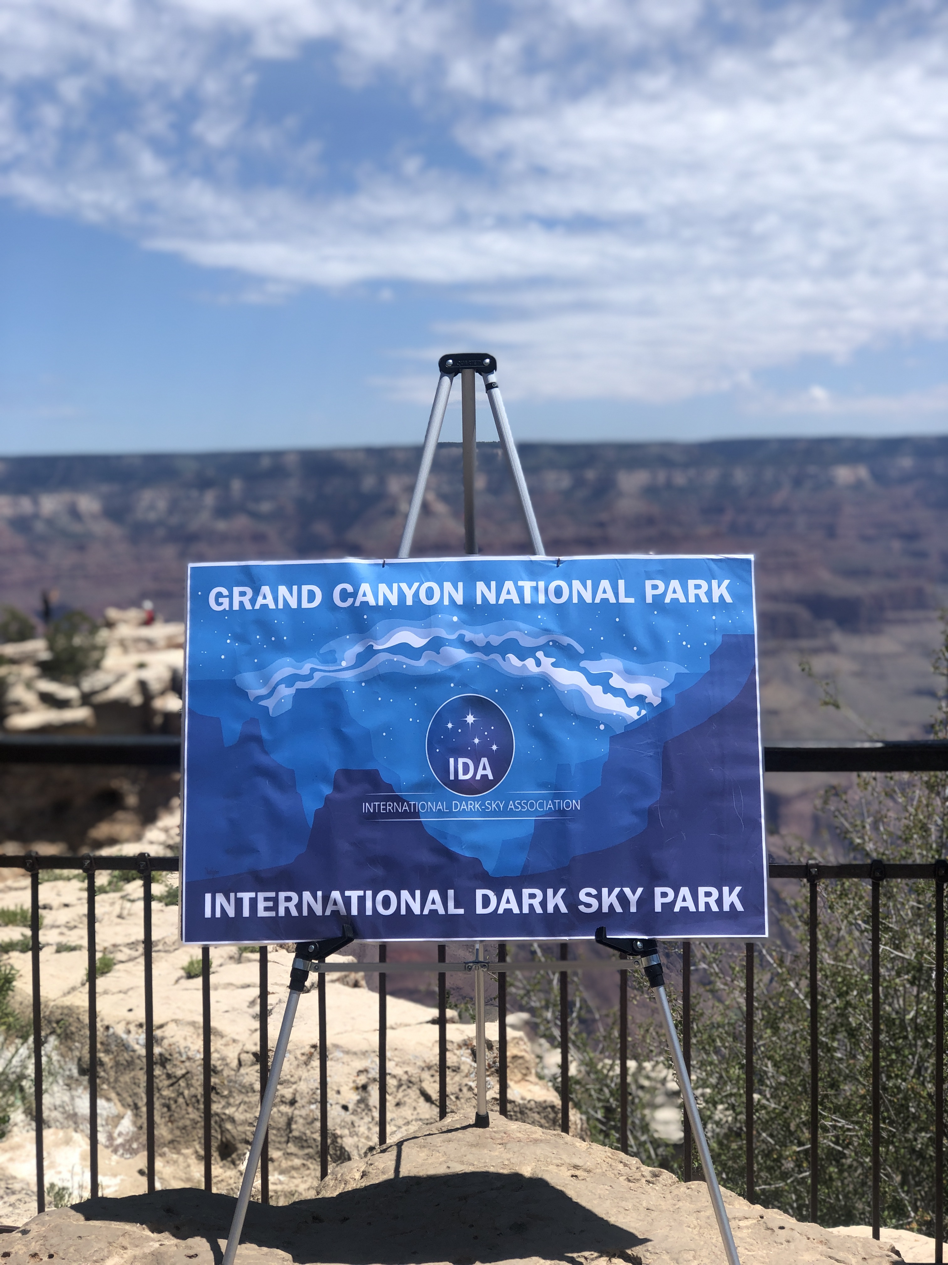 Dark Sky Certification